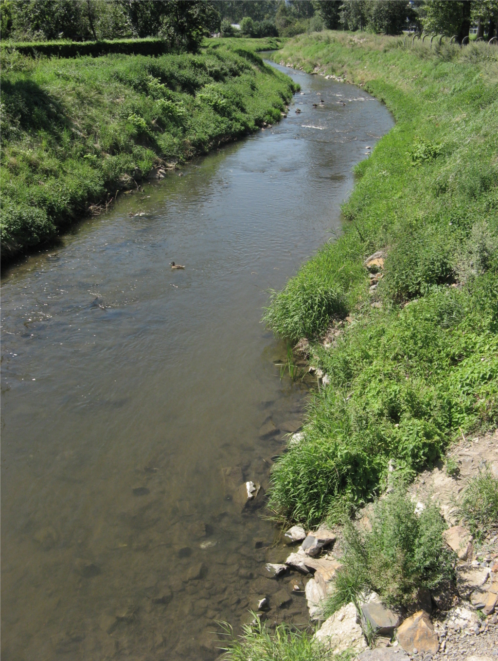 Prudnik River in Prudnik(town)